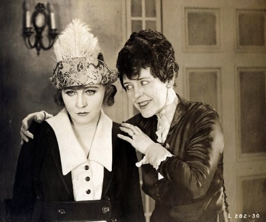 Ethel Clayton (left) and Mayme Kelso in Men, Women, and Money (1919) - publicity still (cropped).